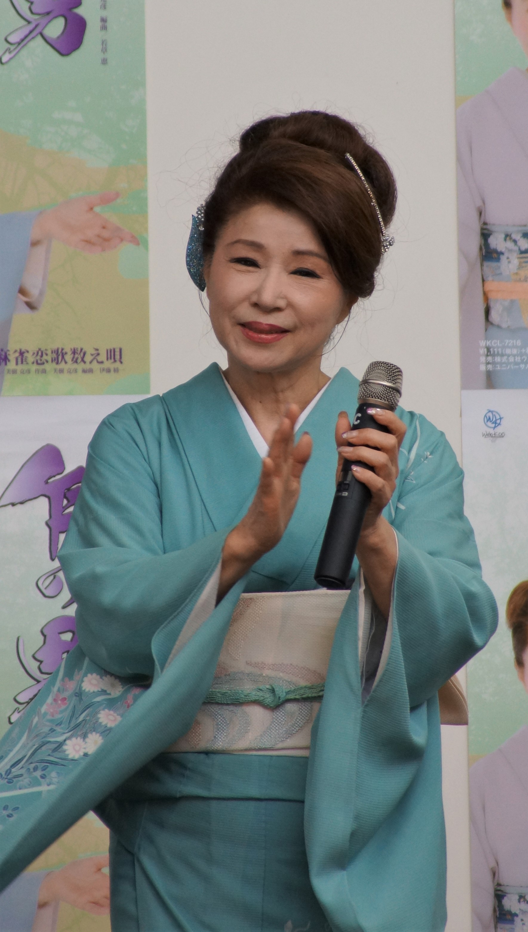 Japanese enka singer Midori Komatsu performing at a promotional event at the Wakaba Walk shopping centre in Tsurugashima, Saitama, Japan